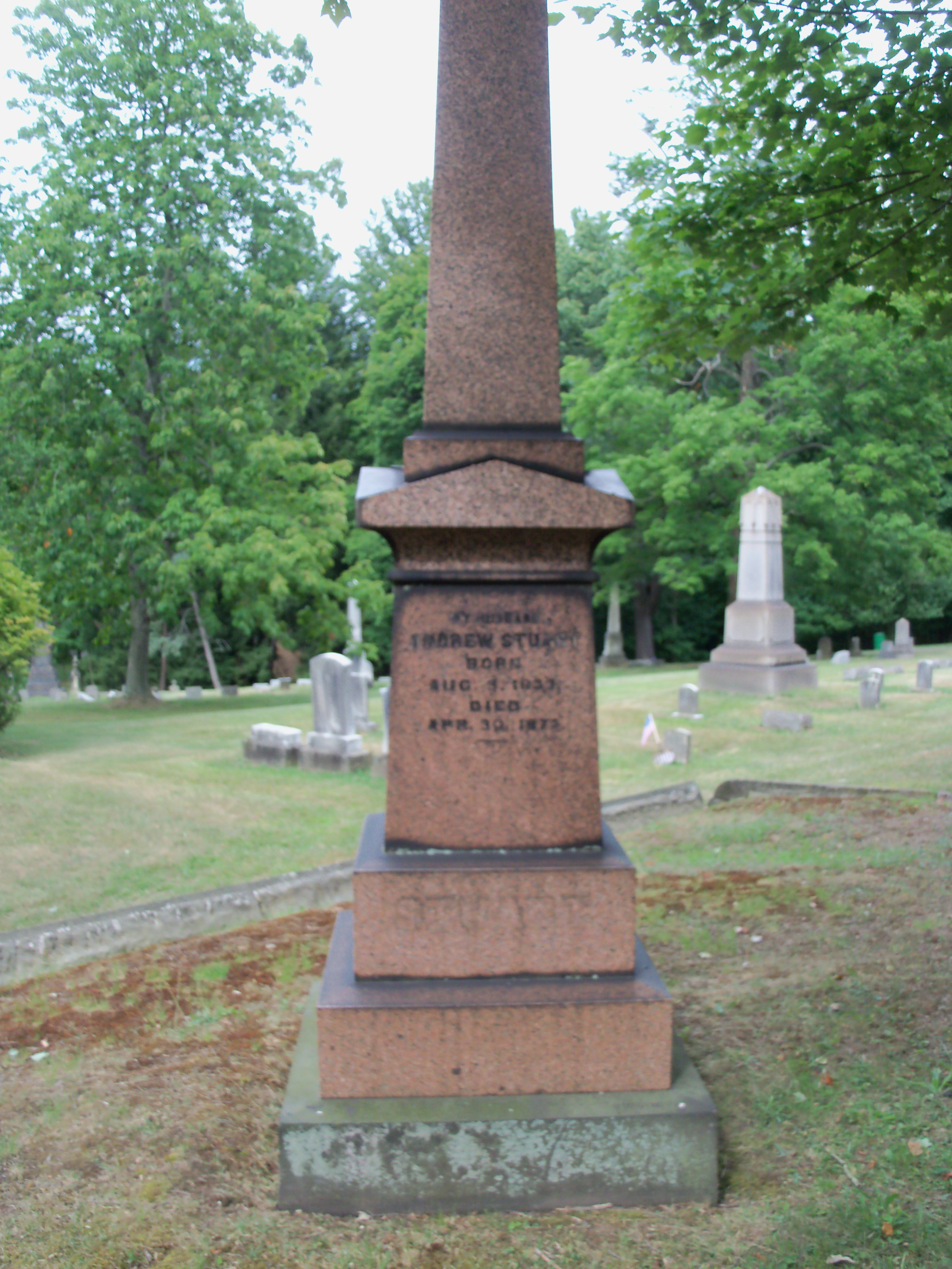 Tomb of Andrew Stuart at Steubenville, Ohio.